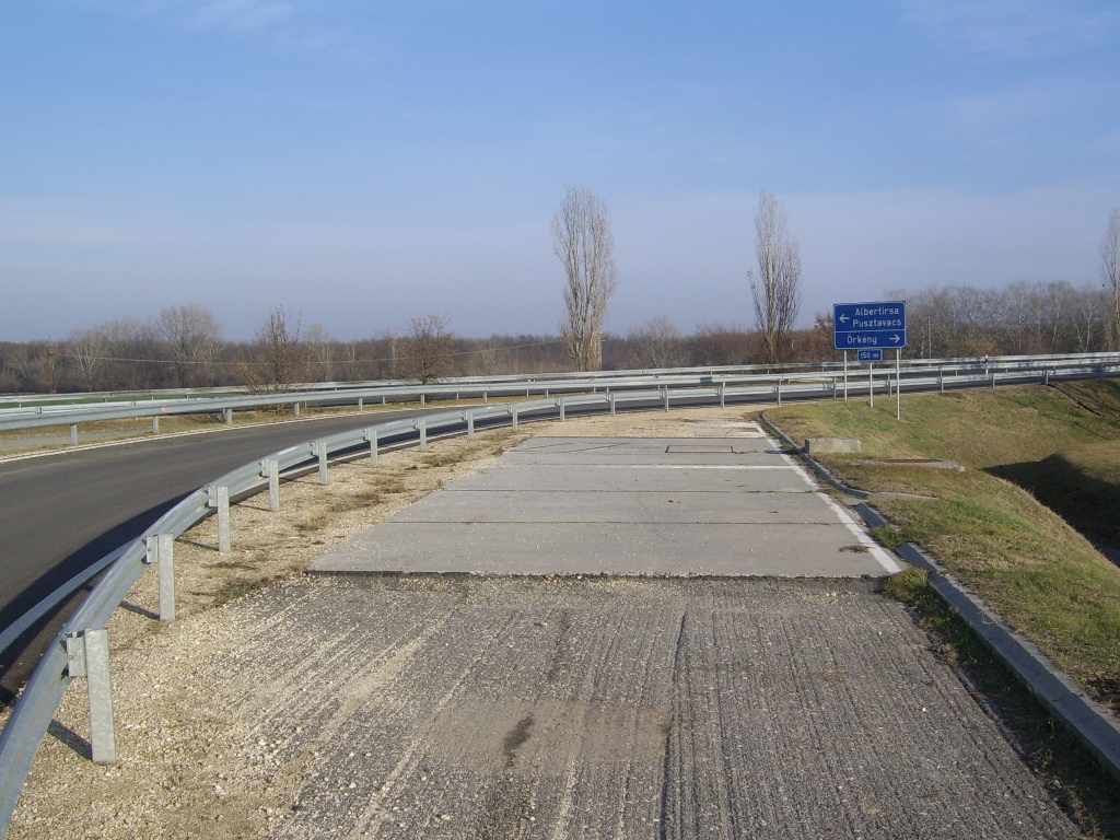 Remains of a toll road gate, Örkény, Hungary